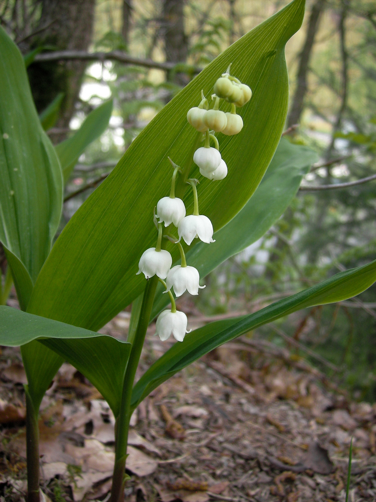 Convallaria majalis, Germany.